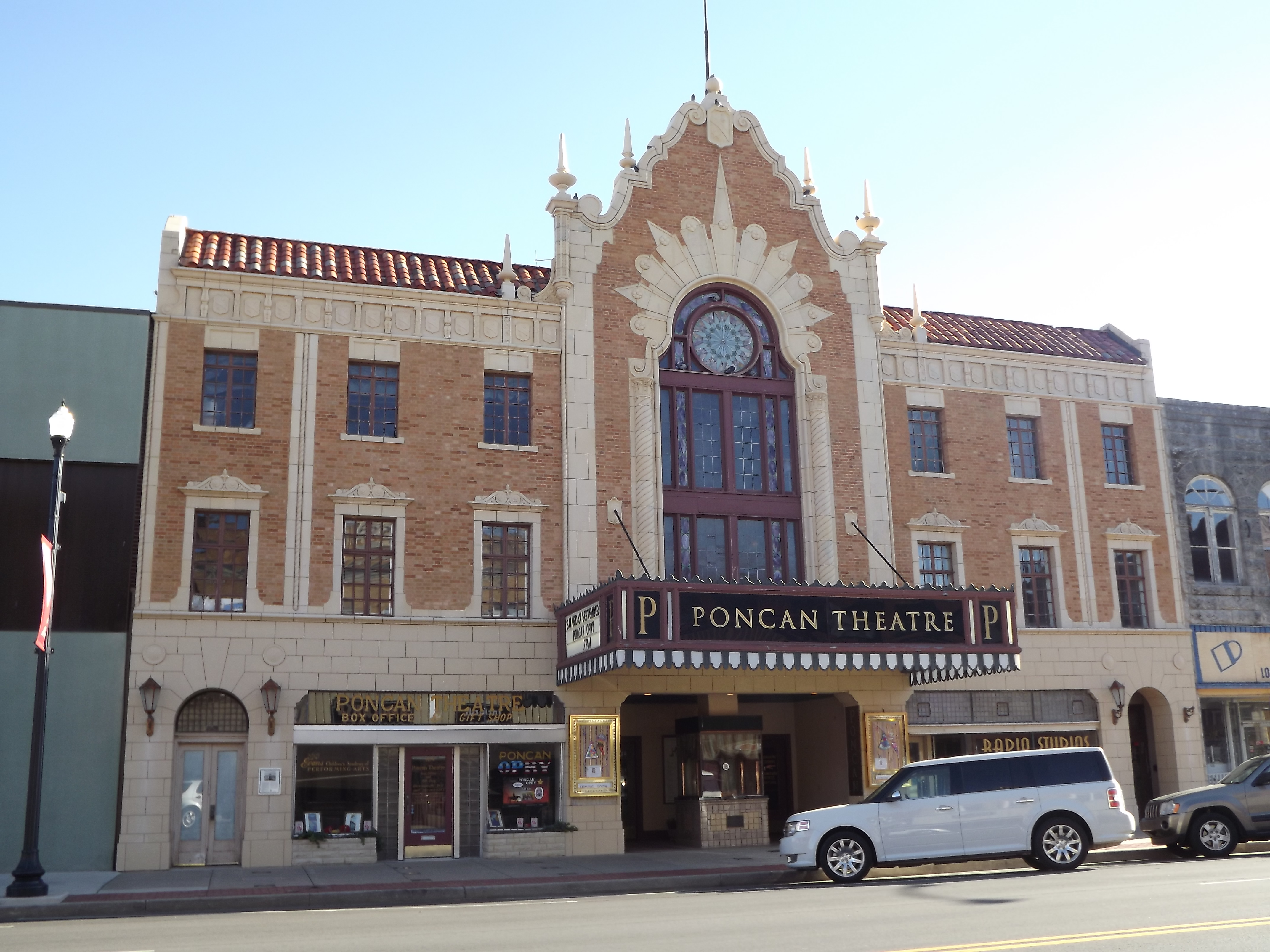 The Poncan Theatre — historic cinema and live theater, at 104 E. Grand Avenue in Ponca City, Oklahoma.